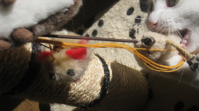 A cat chews on a predatory toy.